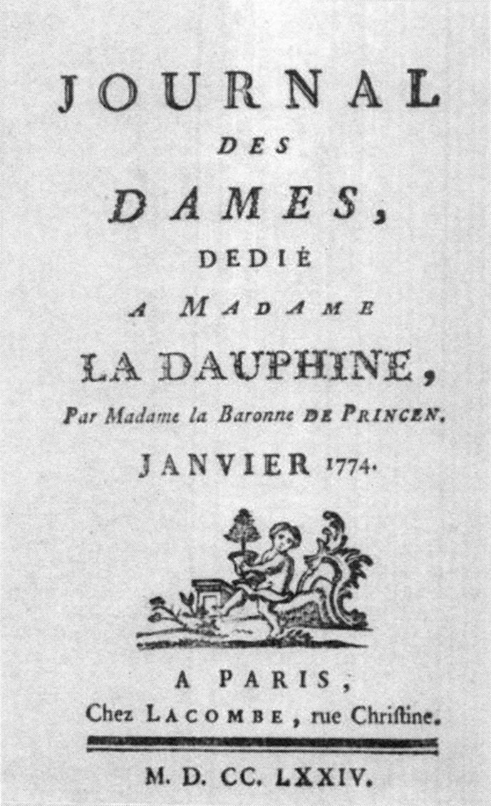 Title page of the French fashion magazine, the Journal des Dames, dedicated to "Madame la Dauphine" (Marie Antoinette) by "Madame la Baronne de Princen"; L'imprimerie de Quillau, rue de Fouarre, January 1774, the first issue after its resuscitation at Marie-Antoinettte's request by her dressmaker Rose Bertin and hairdresser Léonard Autié